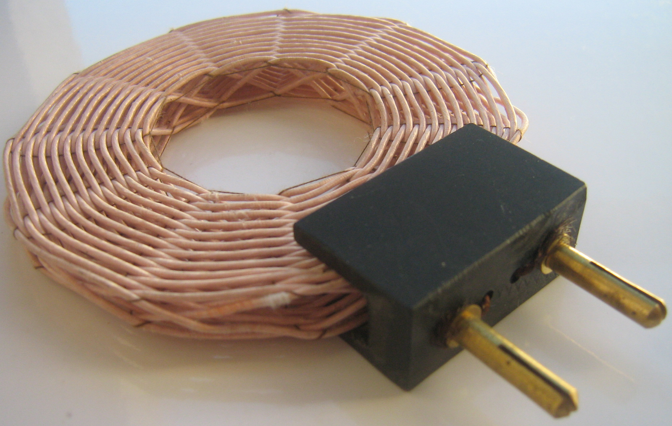 A tuning coil used in medium wave (MW) crystal radios. The coil is wound in a "basket weave" pattern to reduce losses due to proximity effect. It has a Q of 50 to 80 in the 0.5-1.6 MHz band.